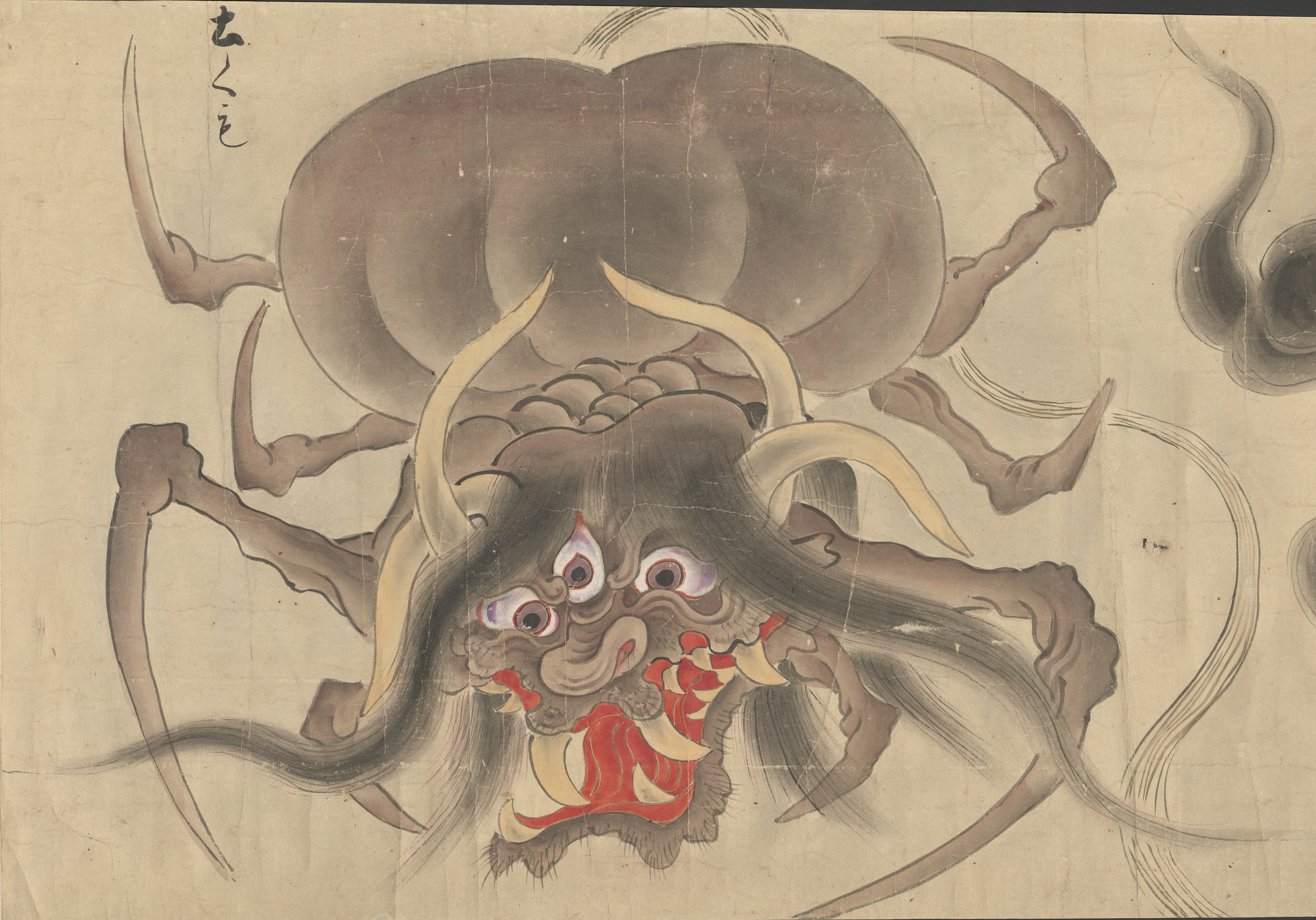 Tsuchigumo 土くも from Bakemono no e (化物之繪, c. 1700), Harry F. Bruning Collection of Japanese Books and Manuscripts, L. Tom Perry Special Collections, Harold B. Lee Library, Brigham Young University.